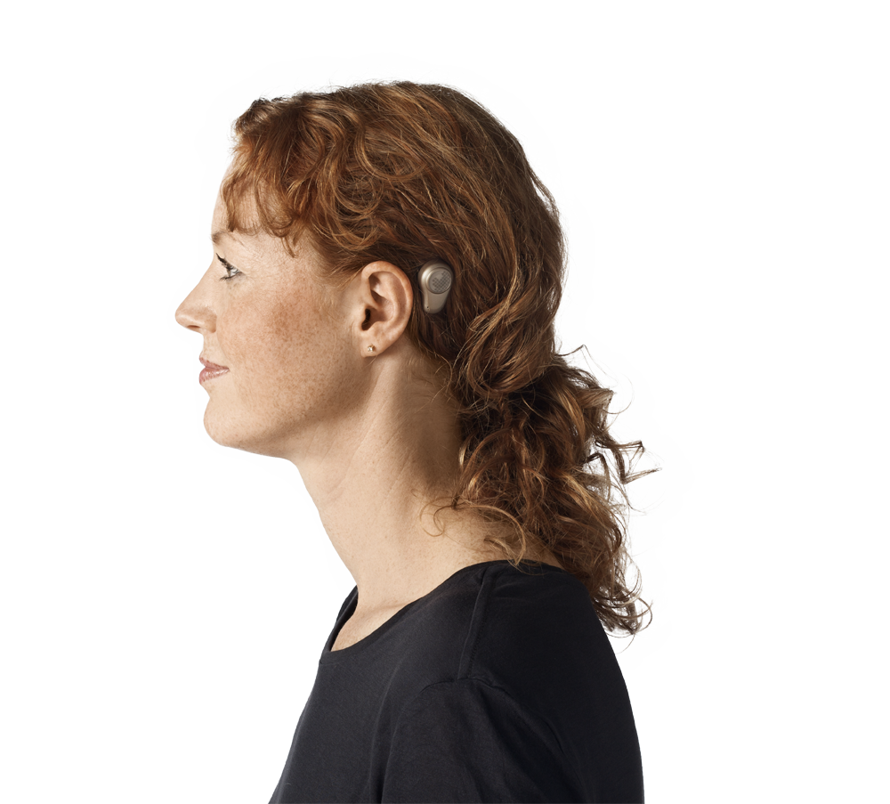 The sound processor from Oticon Medical behind the ear